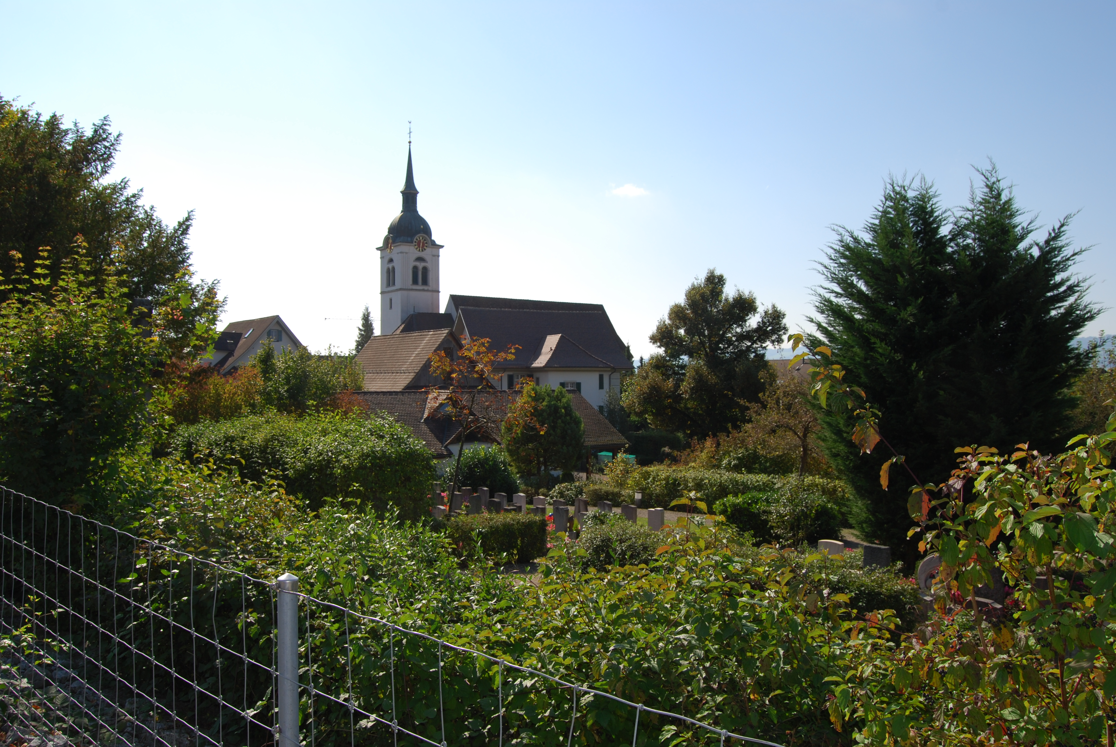 Church of Oberlunkhofen, canton of Aargau, SwitzerlandEsperanto: Preĝejo de Oberlunkhofen, Kantono Argovio, Svislando